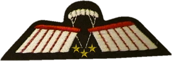 Para Wing C-ops Netherlands